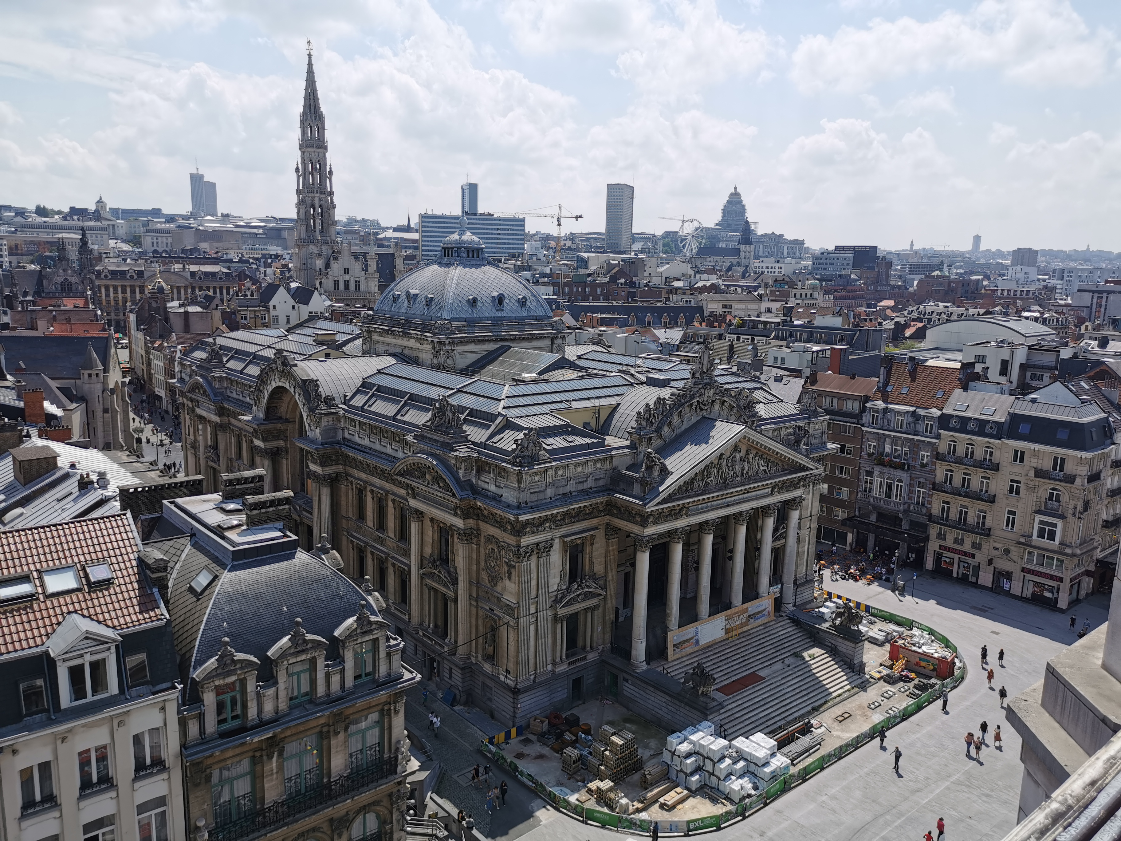 Beurs